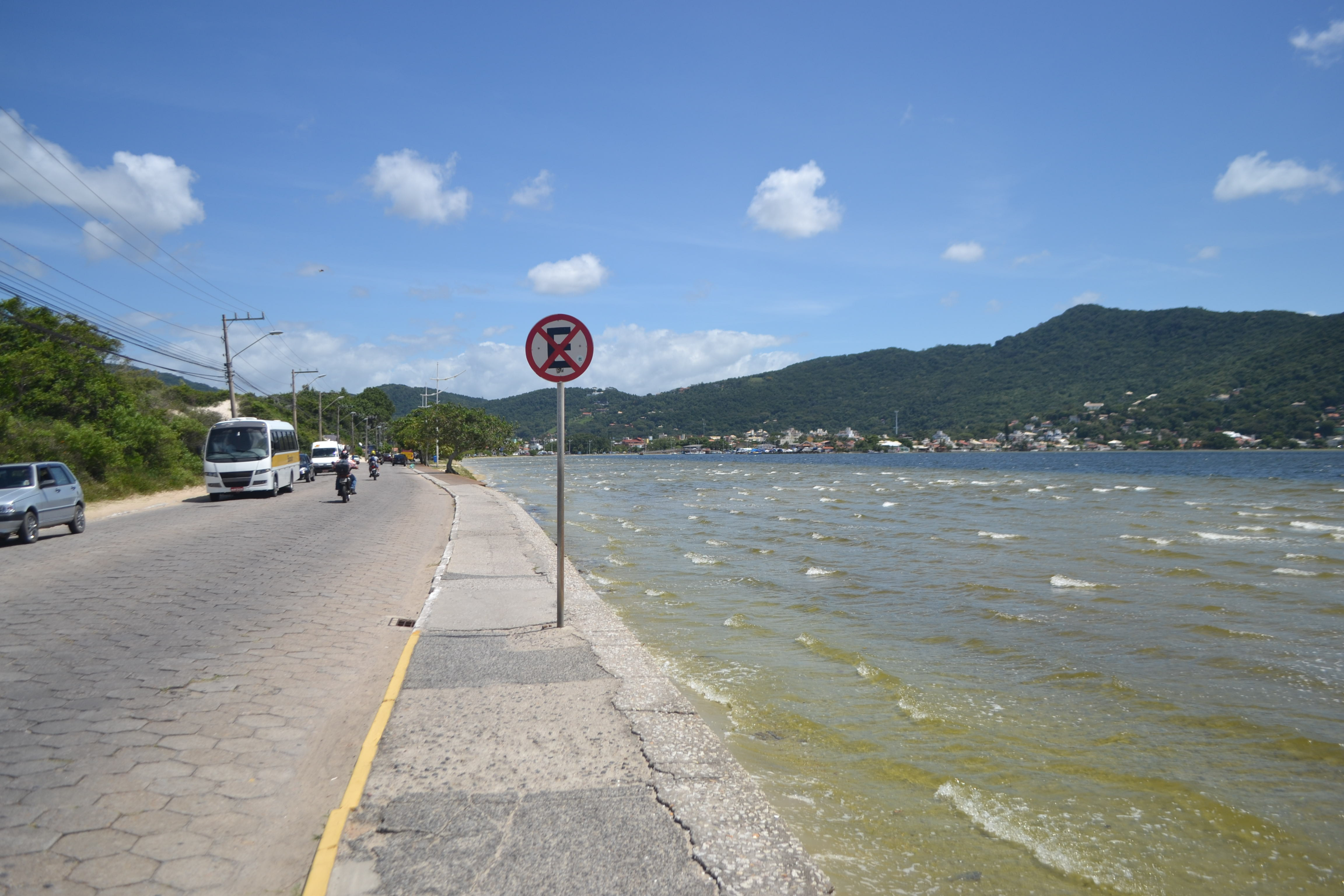 I, Janko Hoener, created this photograph. If you intend to use it, please credit me with the following attribution line: Janko Hoener / CC-BY-SA-4.0. A link back to this page and informing me about your usage is appreciated.